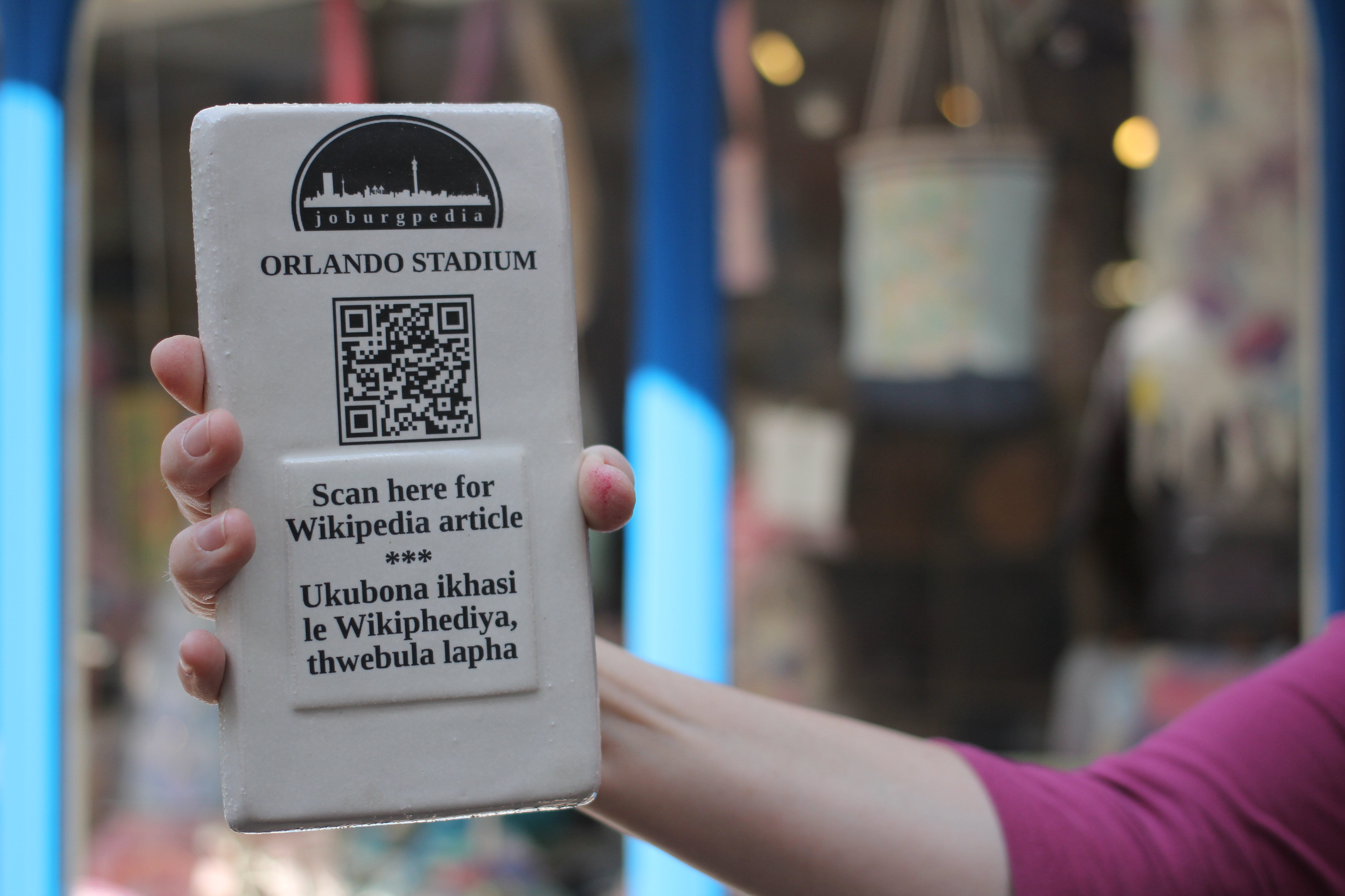 One of the ceramic plaques of Joburgpedia that were made in Monmouth, UK.